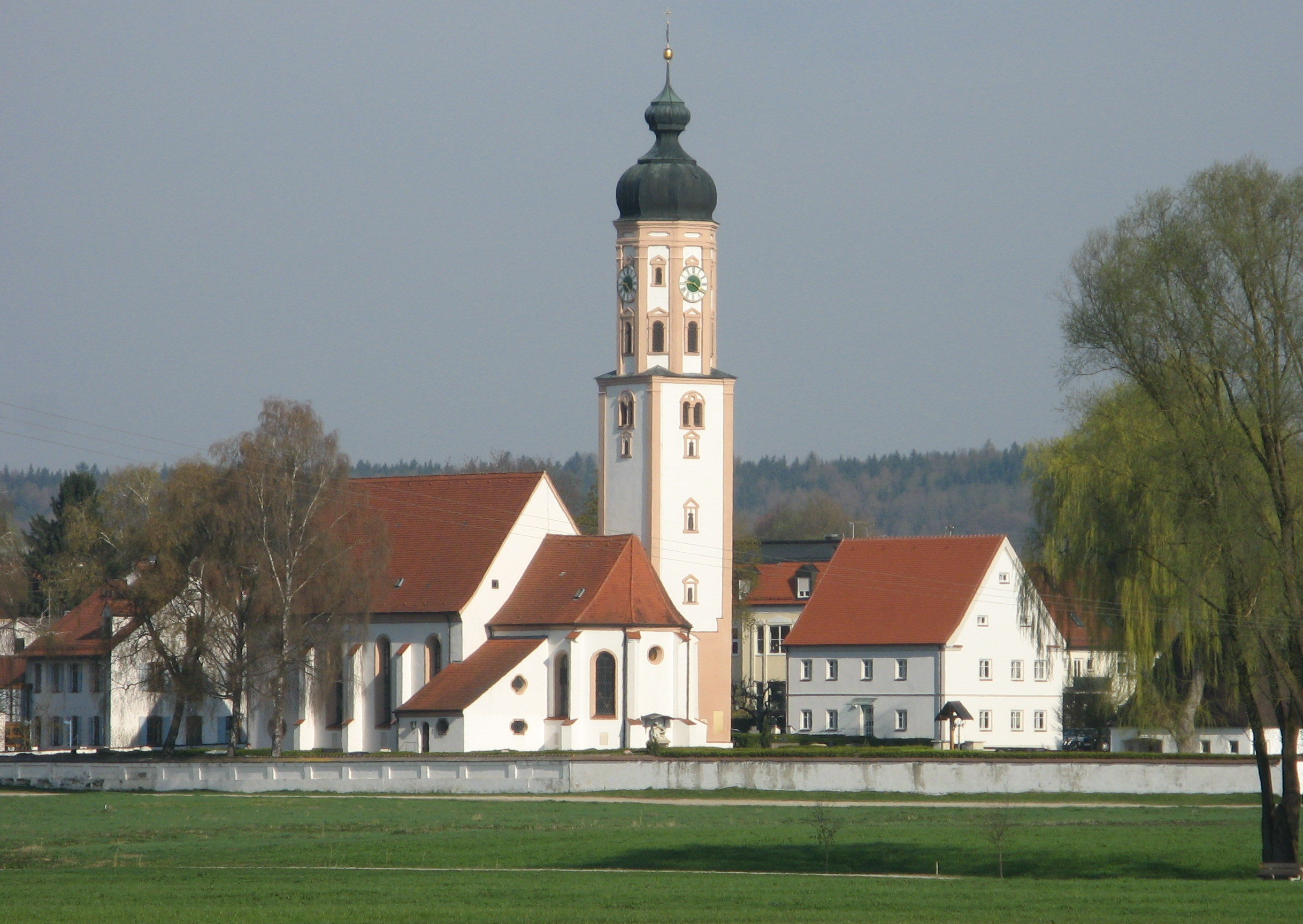 Horgau, view of St Martin's Parish Church from south-east.